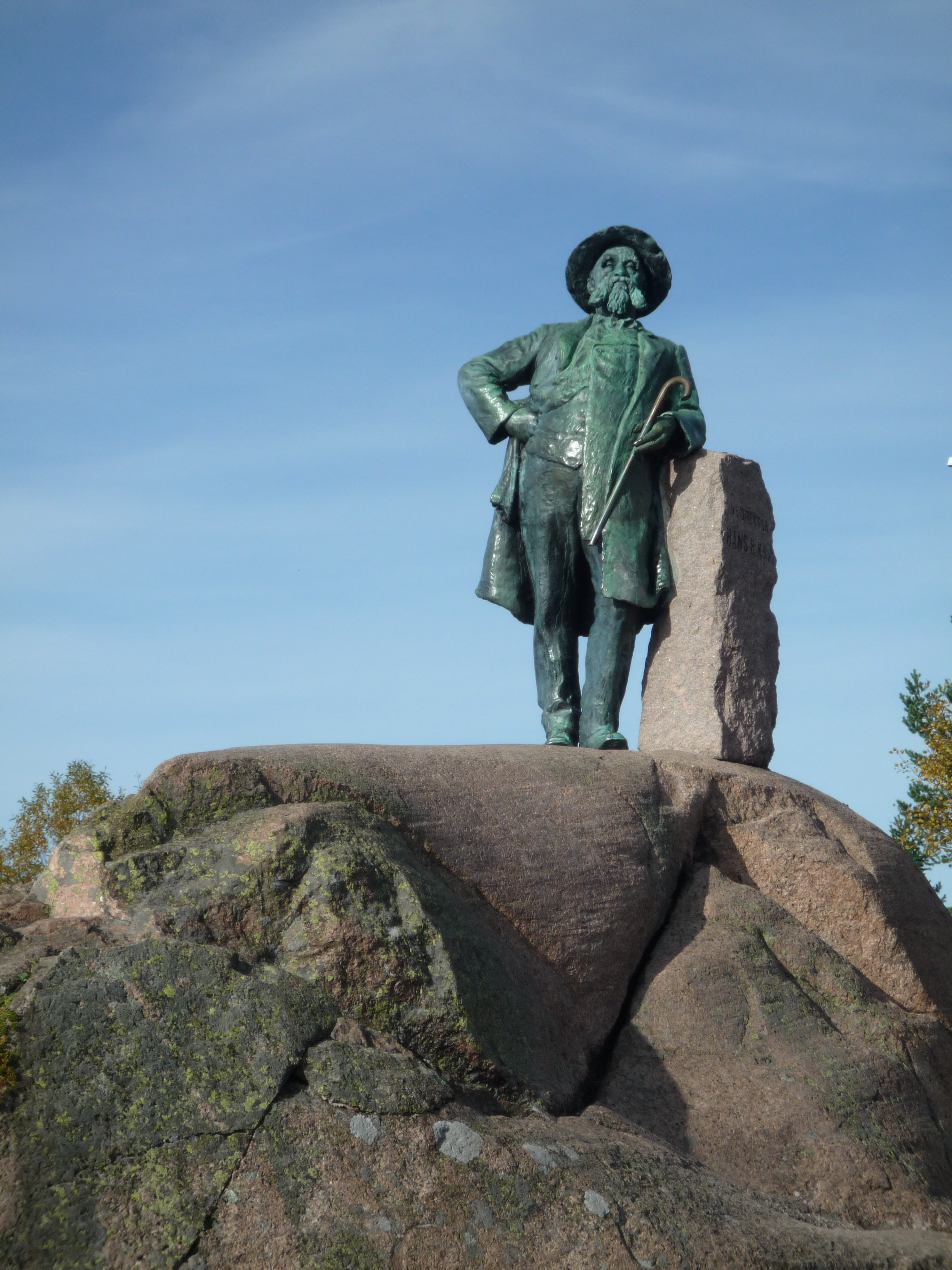 Statue of Hans Hagerup Krag by Gustav Lærum.